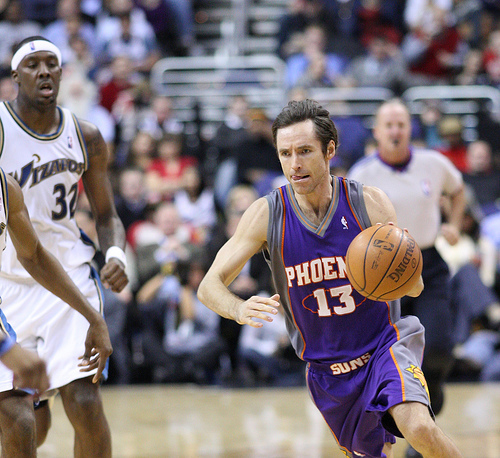 Steve Nash of the Phoenix Suns of the National Basketball Association dribbling the against the Washington Wizards